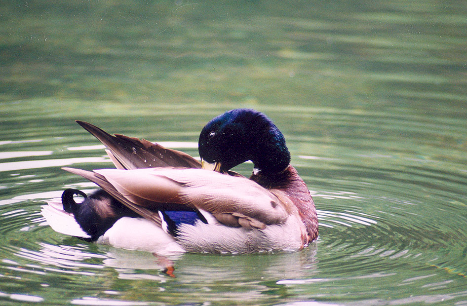 A North American mallard drake grooming his feathers while swimming, New York City, Central Park.